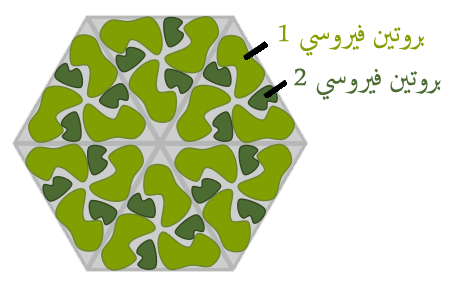 Schematic diagram of the hexon of a virus capsid made from two protein molecule